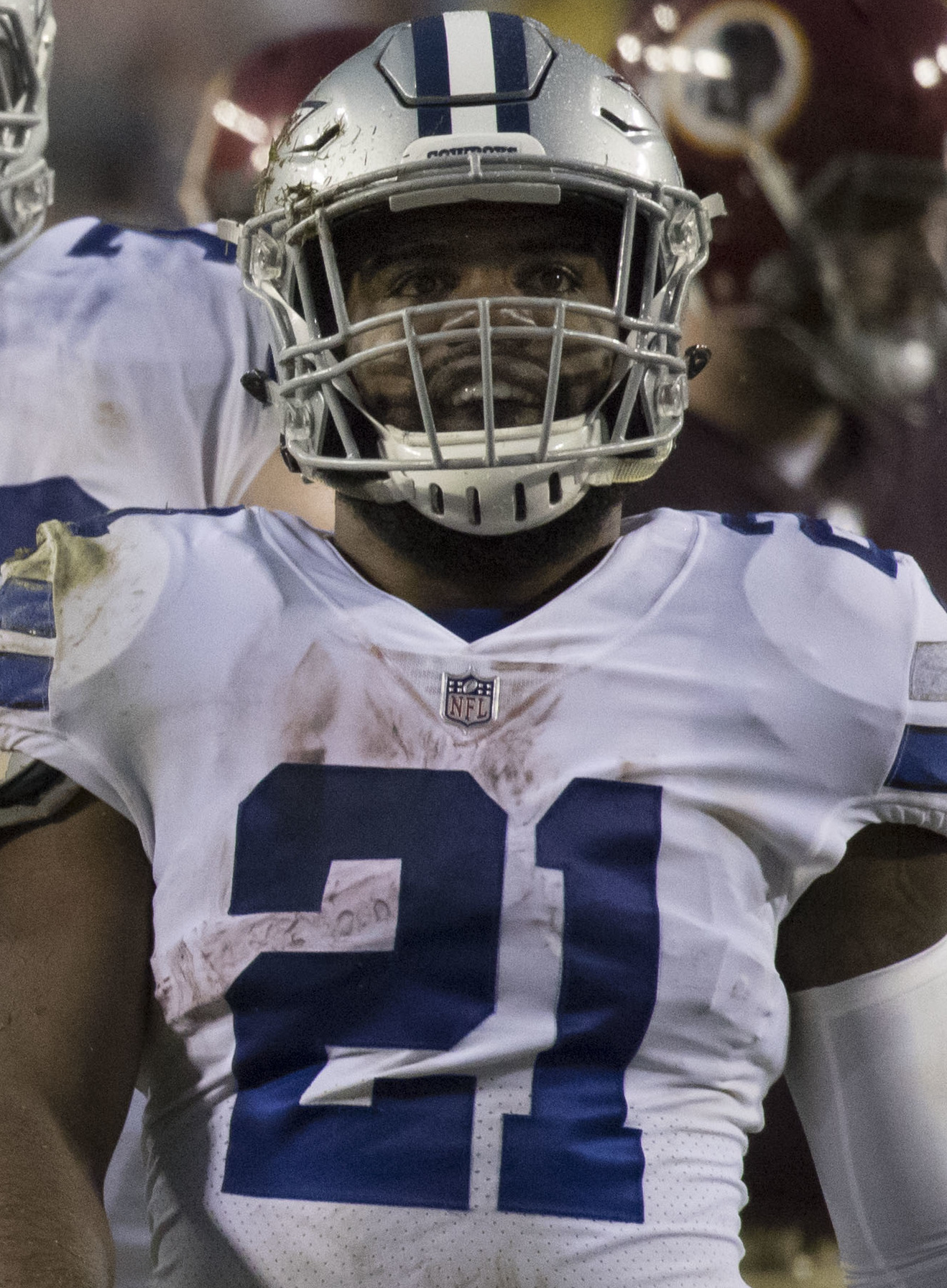 Cowboys at Redskins 10/29/17